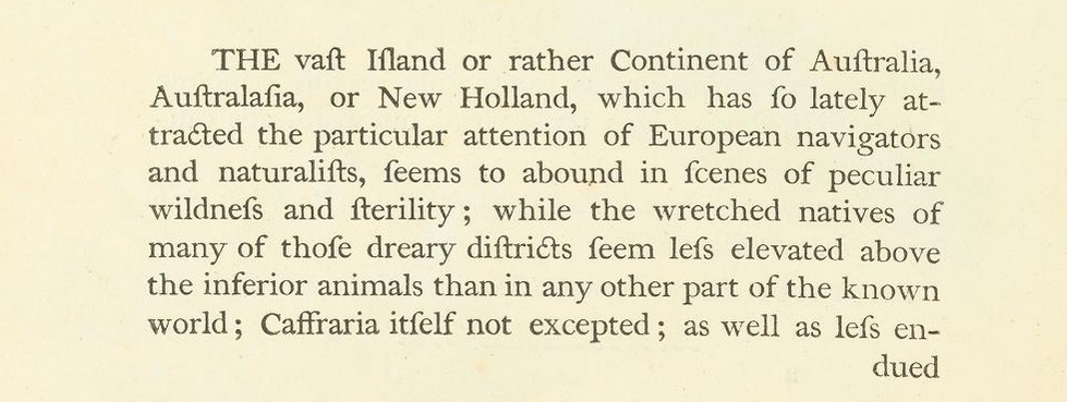 The name Australia was specifically applied to the continent for the first time - Zoology of New Holland - Shaw, George,1751-1813; Sowerby, James,1757-1822 Page 2